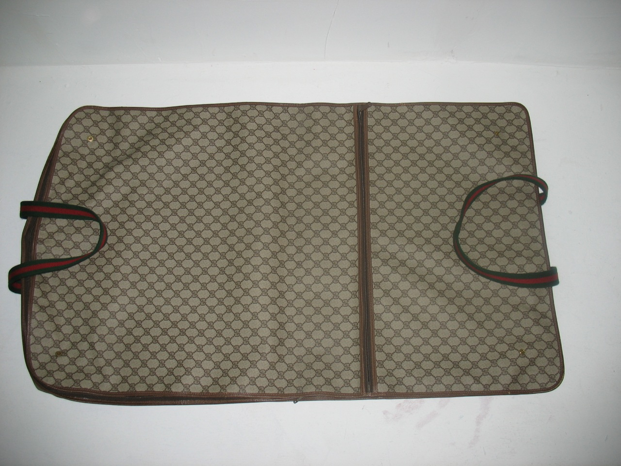 Gucci serial no. 011.20.00036 -2 interior hangers -Gold Gucci label inside -2 green and red striped handles Starting Bid: $75.00 Auction Closes On:08/27/2006 at 05:00 PMEST Link for this item Bid on this item and hundreds more at All proceeds help us continue the fight against HIV/AIDS and homelessness